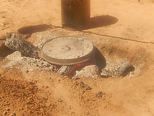 I took photo with Nikon camera of chuckwagon cooking in ashes.